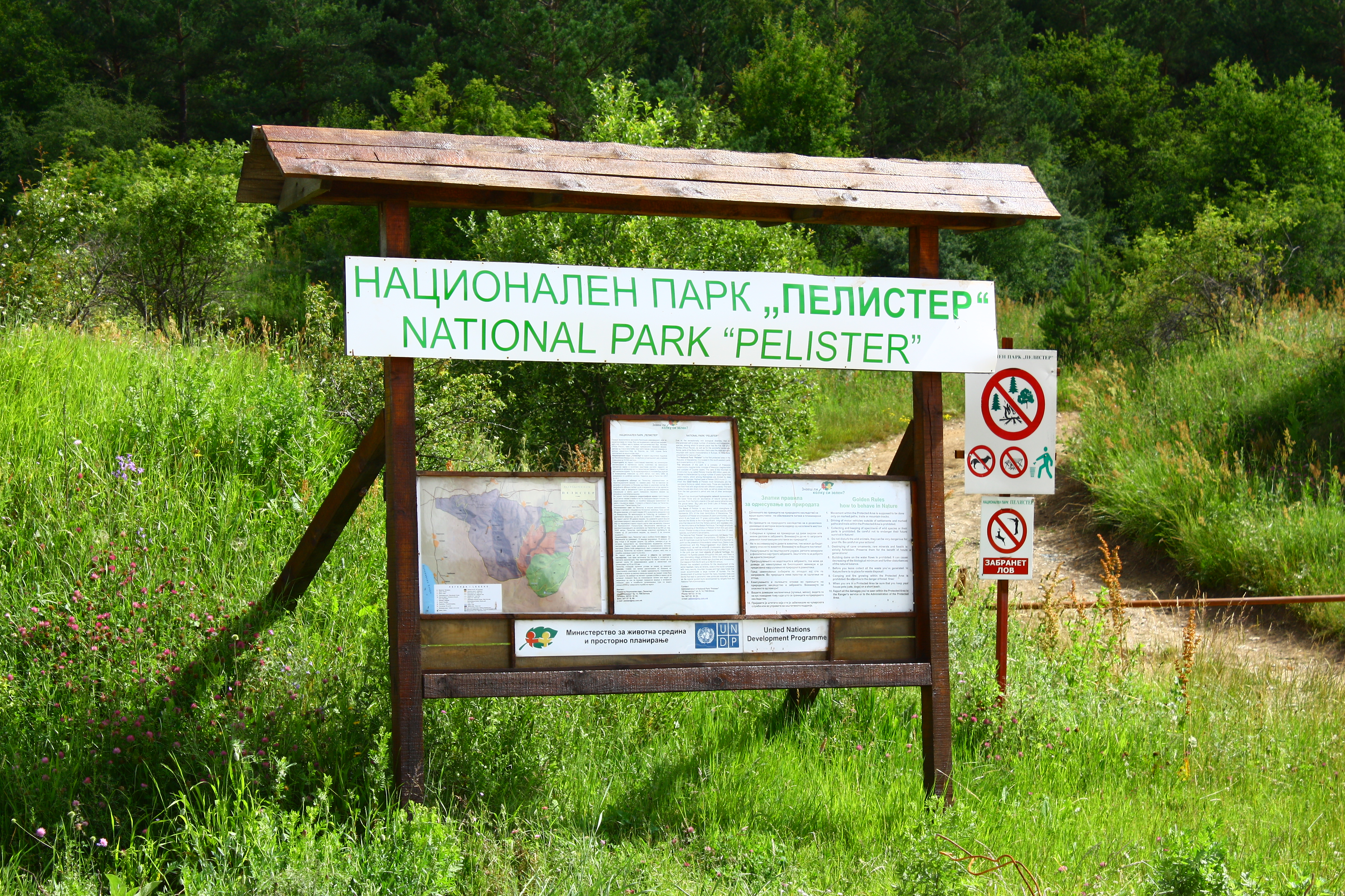 National Park Pelister. Enter from Ǵavato, Macedonia